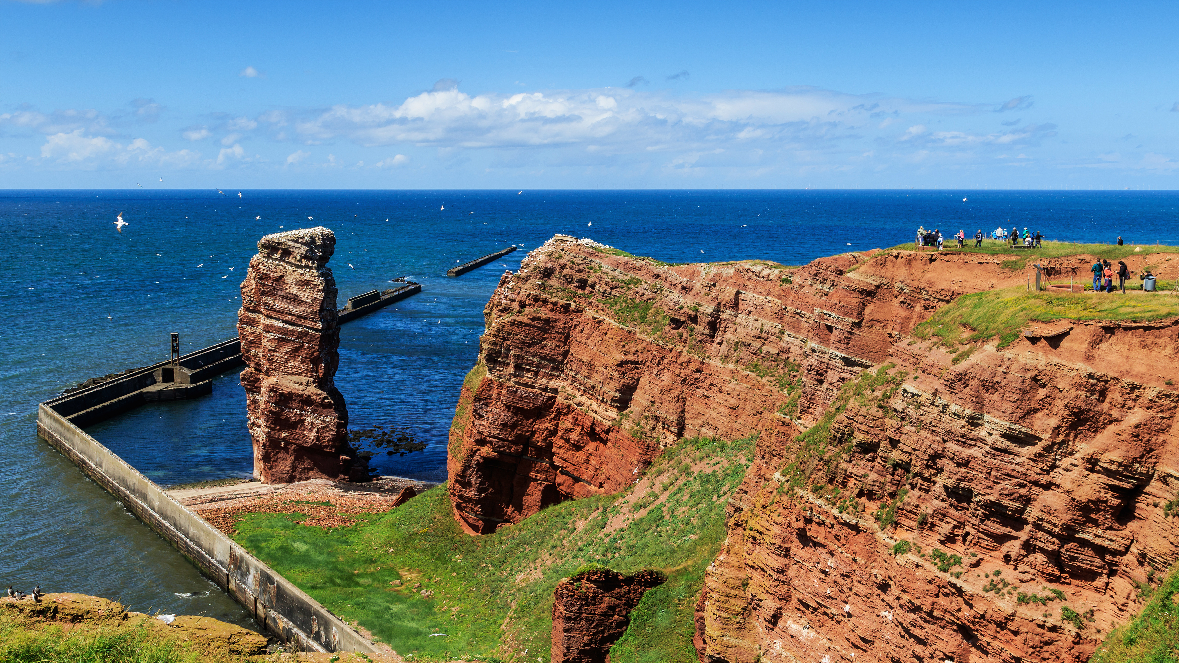 View of the cliffs from upper island of Heligoland, Germany